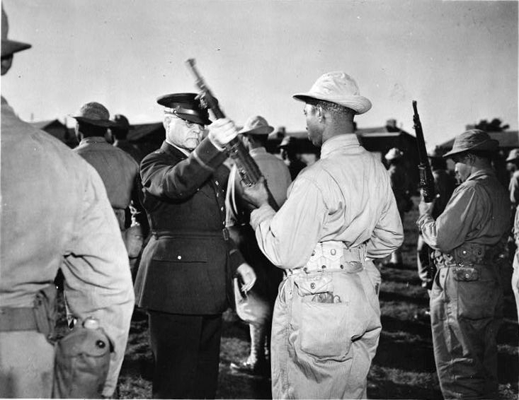 Brigadier General Benjamin O. Davis inspecting the rifle of a U.S. soldier somewhere in England